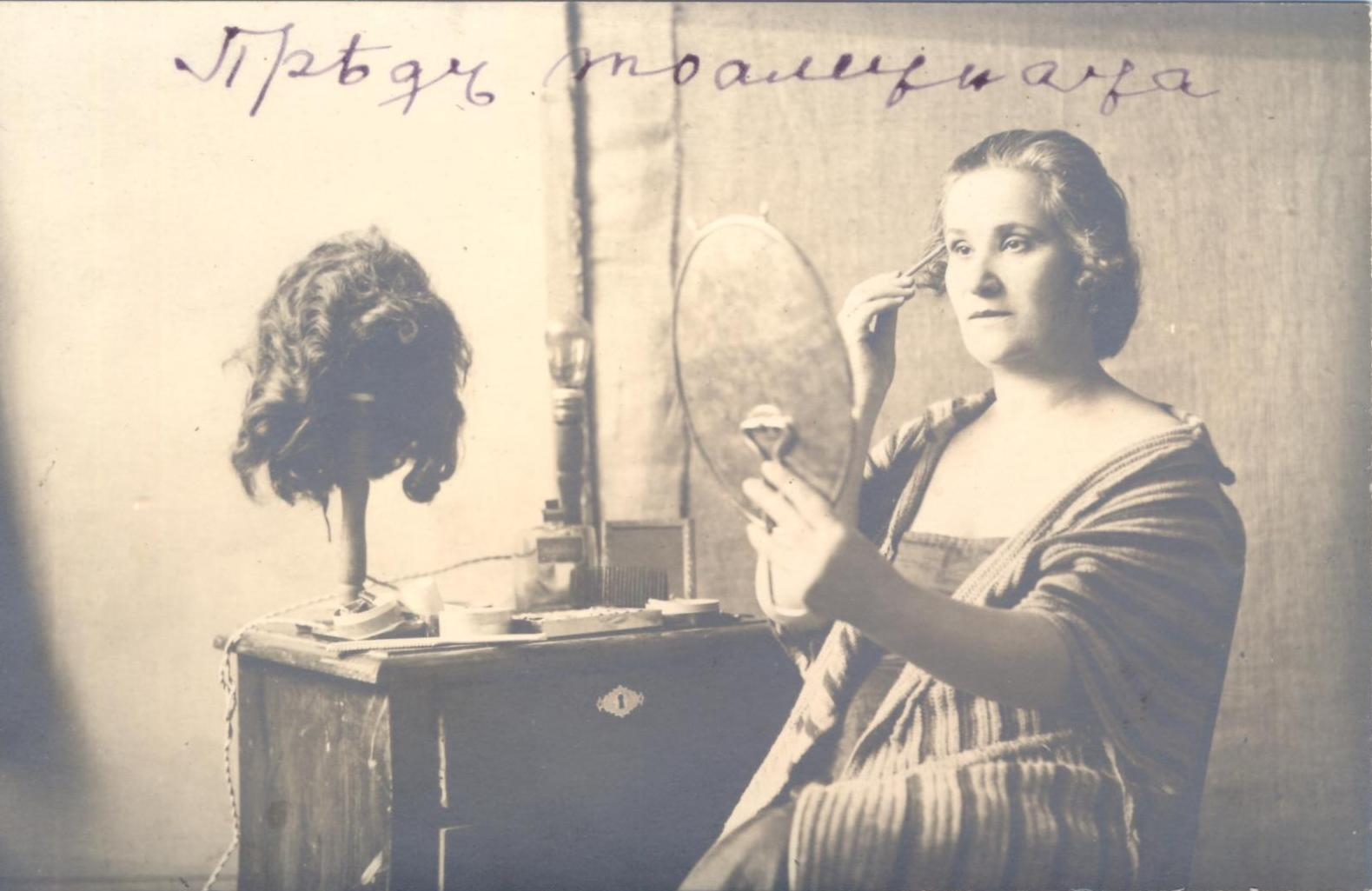 Kitsa Stoyanova.